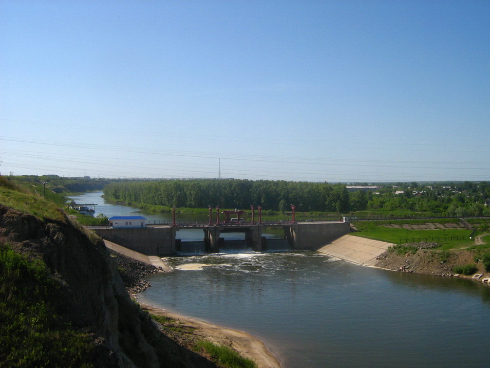 Петропавловский гидроузел на реке Ишим